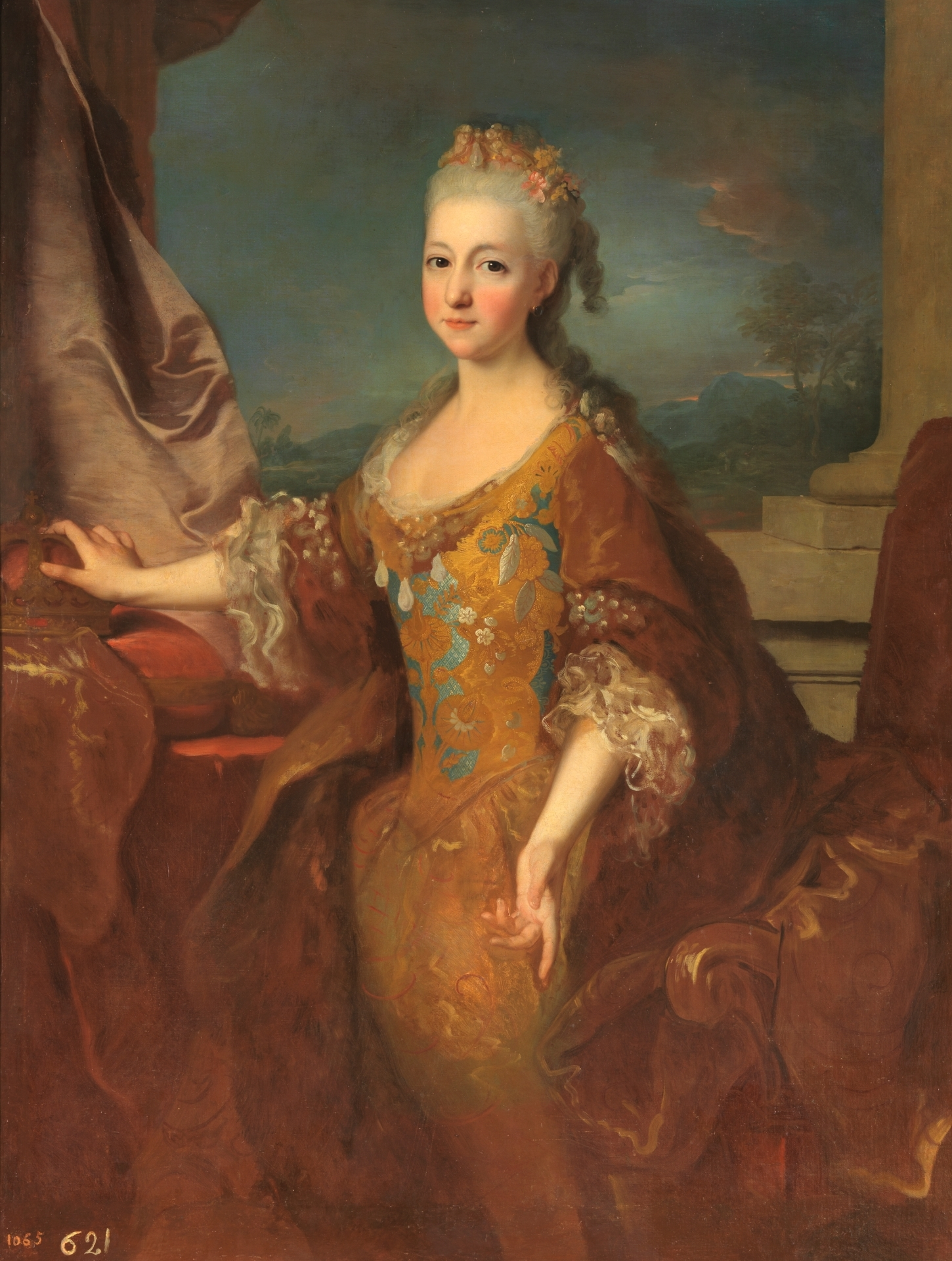 Louise Élisabeth d'Orléans, Queen of Spain (Palace of Versailles, 11 December 1709 – Luxembourg Palace, Paris, 16 June 1742) was Queen Consort of Spain as the wife of King Louis I of Spain. In her adopted country, she was known as Luisa de Orleans. Hers was one of the shortest reigns in European history due to her husband's brief reign and early death.